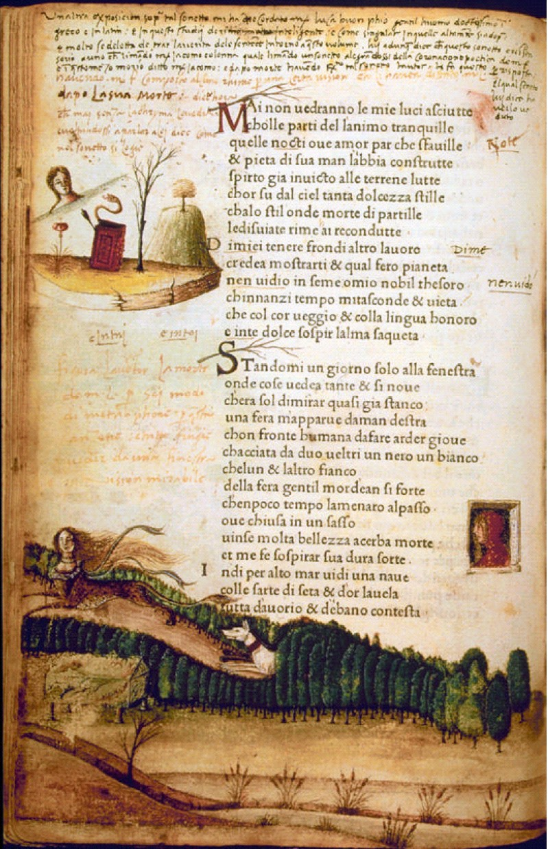 Manuscript page with the beginning of Petrarch's Canzone 323. Petrarch is depicted at his window, overlooking the first of his six visions. Allusions to his other visions are also depicted.